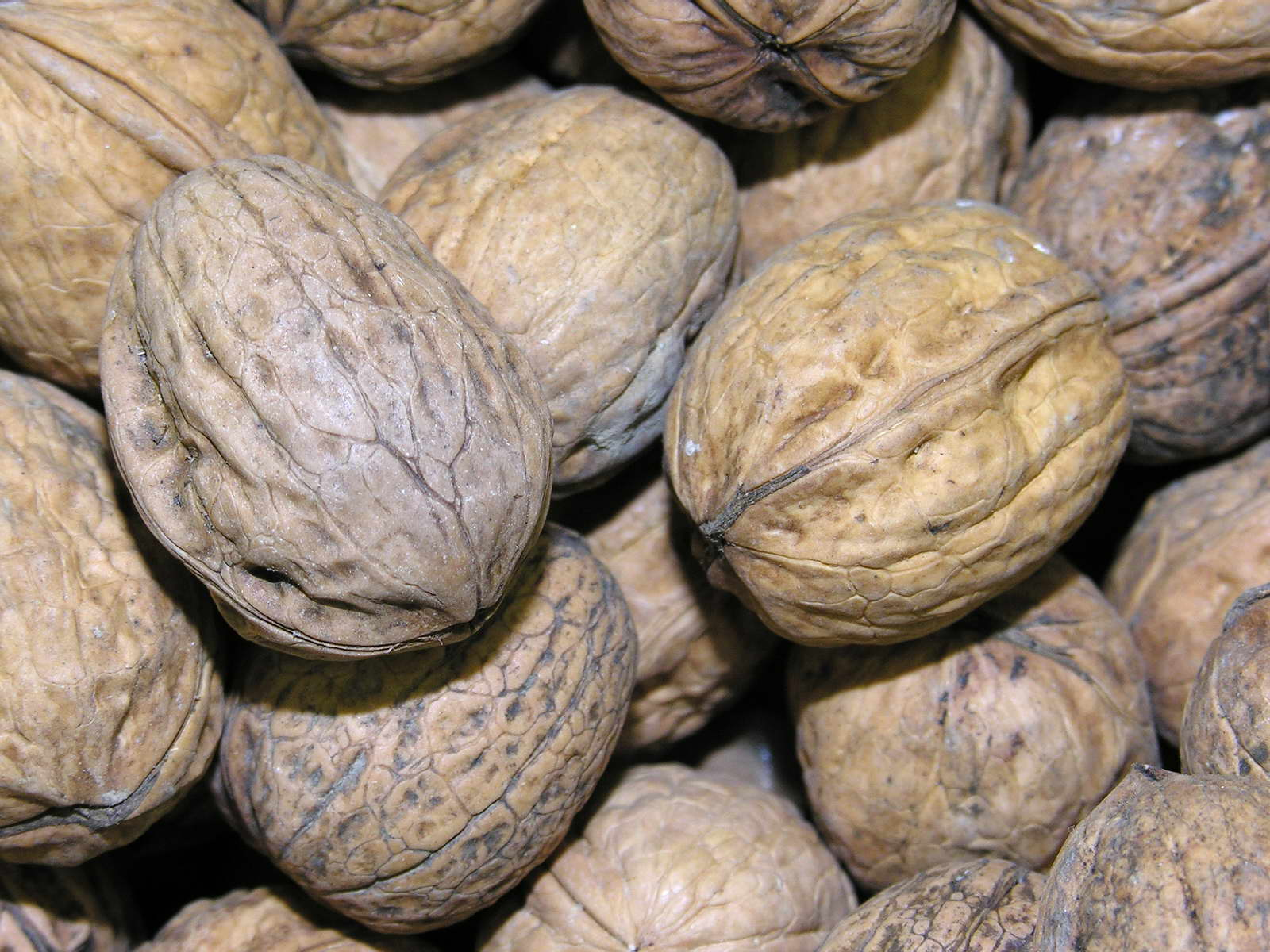 a nut of Galicia